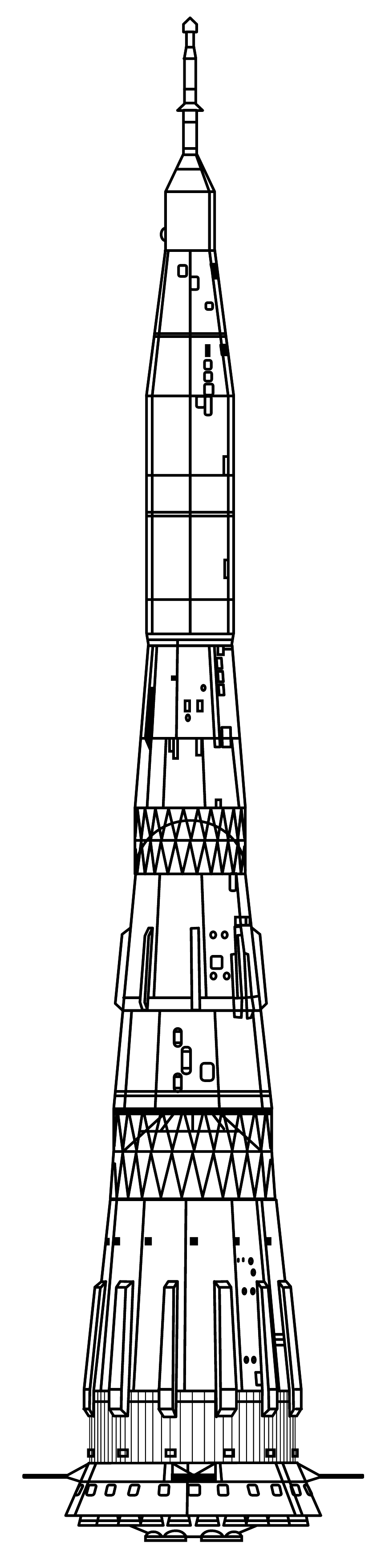 N-1 manned Moon rocket drawing.